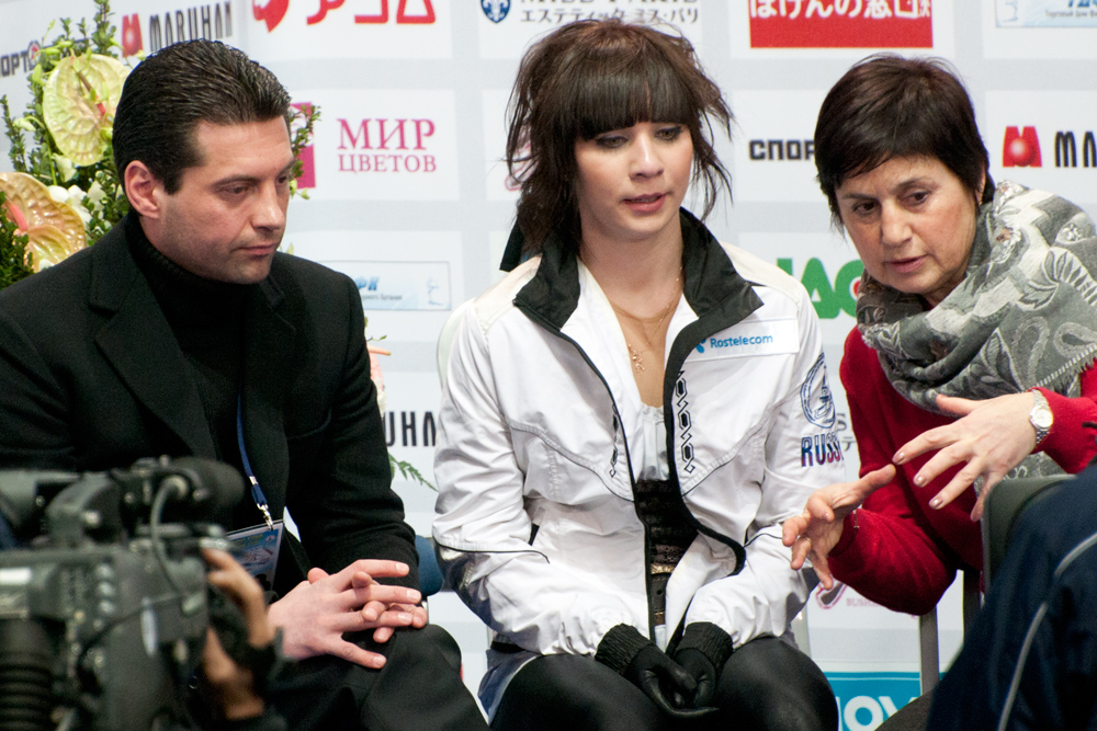 2011 Cup of Russia, short program.